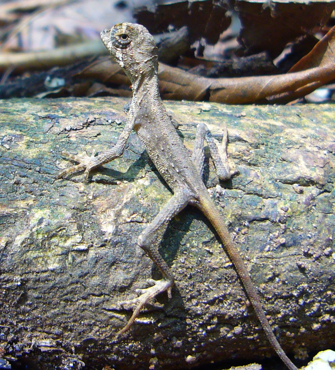 Otocryptis wiegmanni or Brown-patched kangaroo-lizard at Udawattakele Sri Lanka